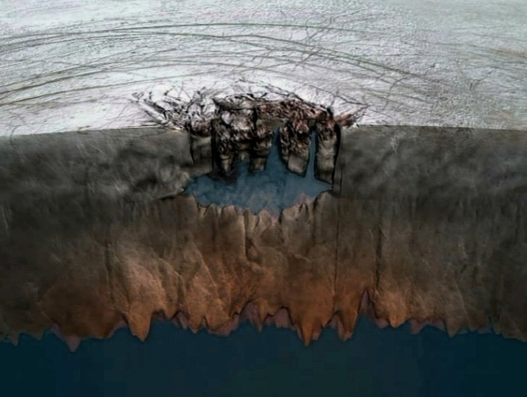 The big lakes in Europa moon.